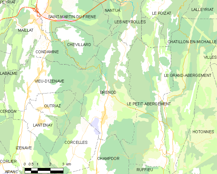 Map of French commune: Brénod Map commune FR insee code 01060.png